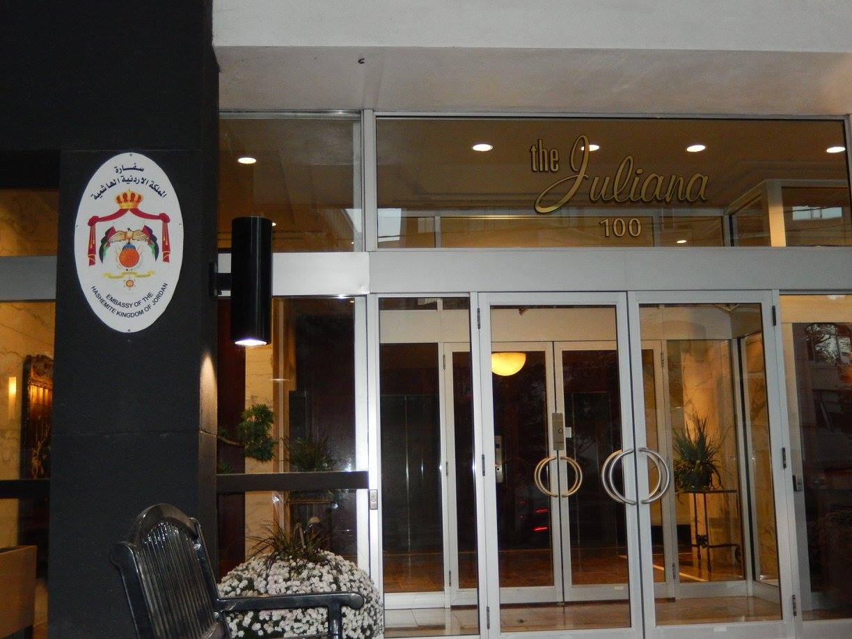 Embassy of Jordan in Ottawa. The embassy resides within an apartment (likely just a unit) and not a standalone building.